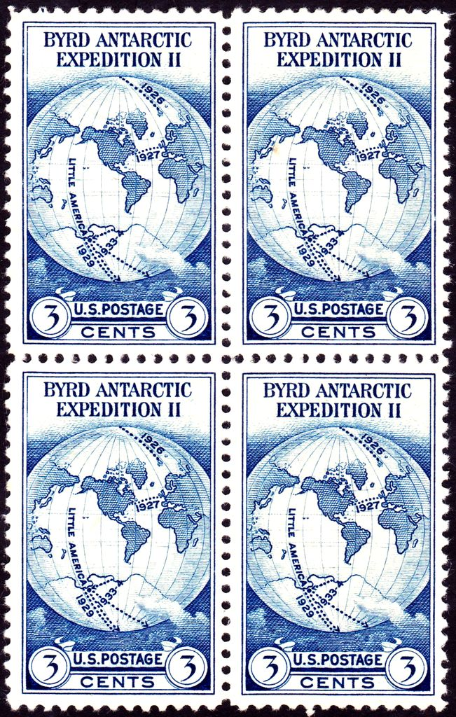 Byrd_Antarctic_Expedition-II_3c.jpg